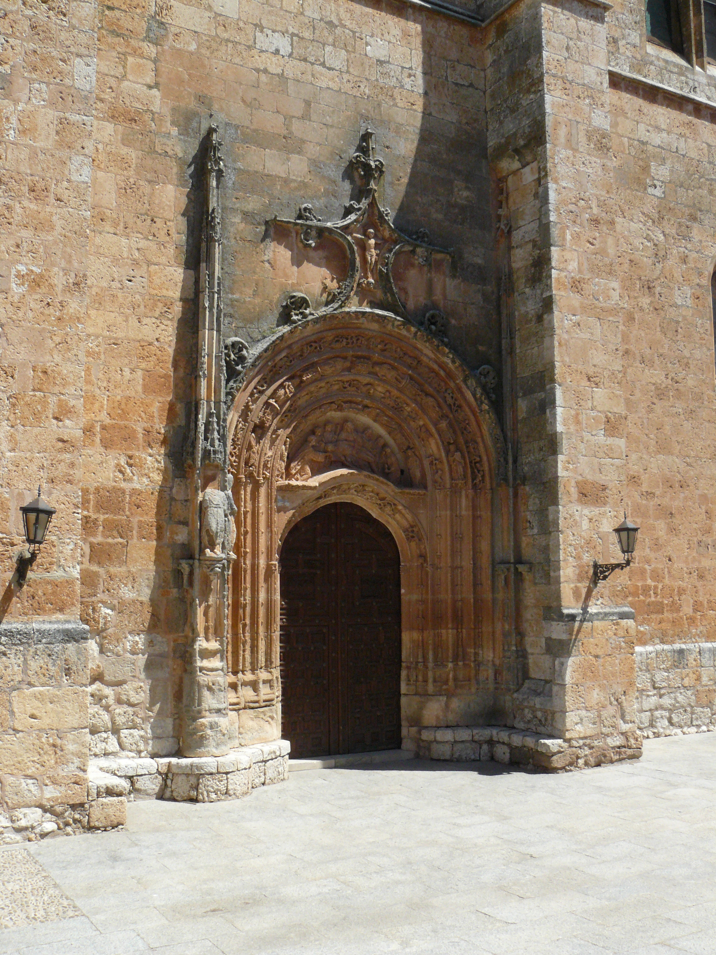 Renaissance gate of Villahoz church, Burgos, Spain.